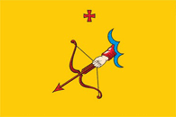 Flag of Kirov, Kirov oblast, Russia